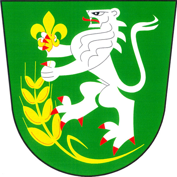 Coat of amrs of Polerady , District Prague East, Czech Republic